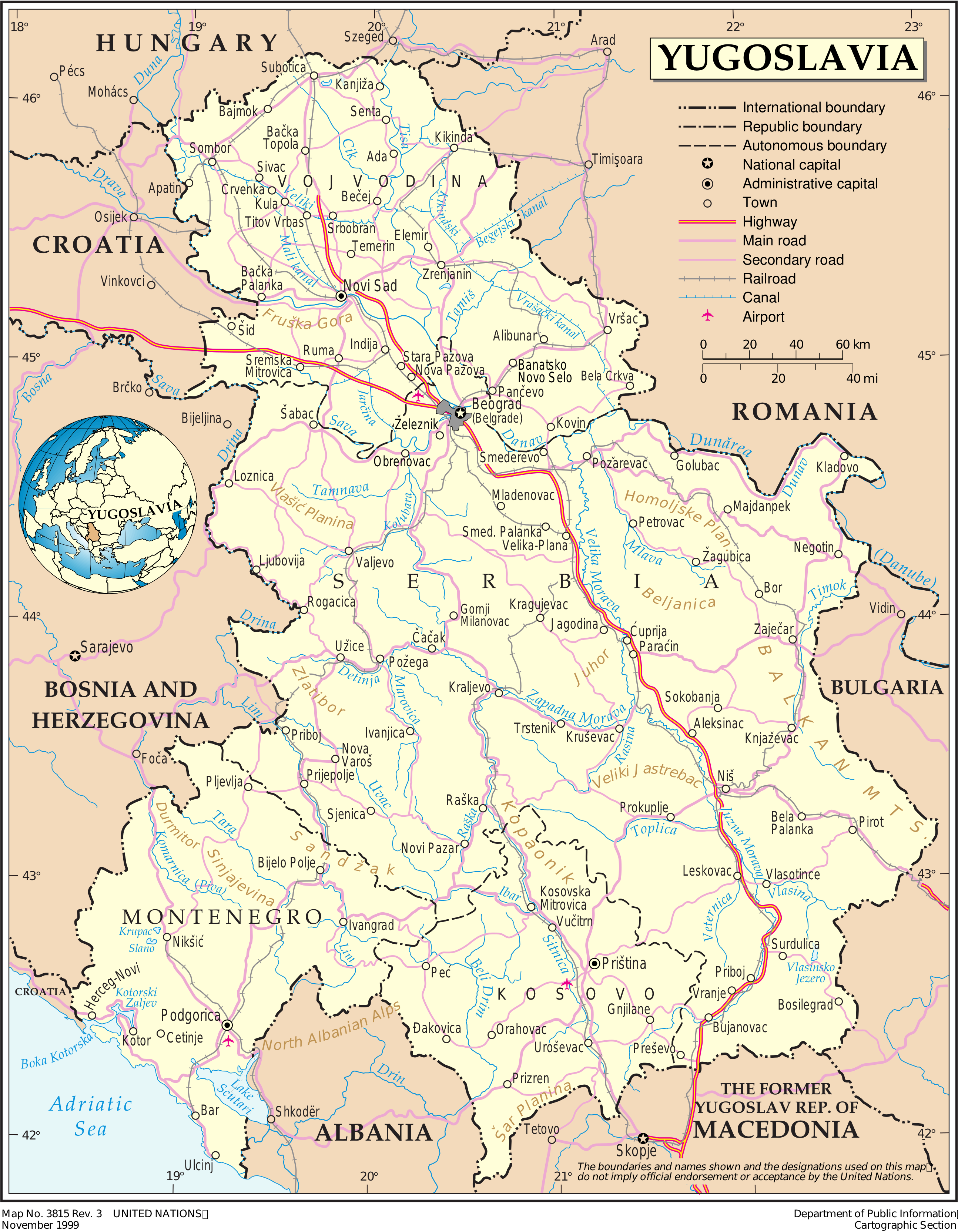 Map of Yugoslavia as of November 1999. Produced by the United Nations Cartographic Section.